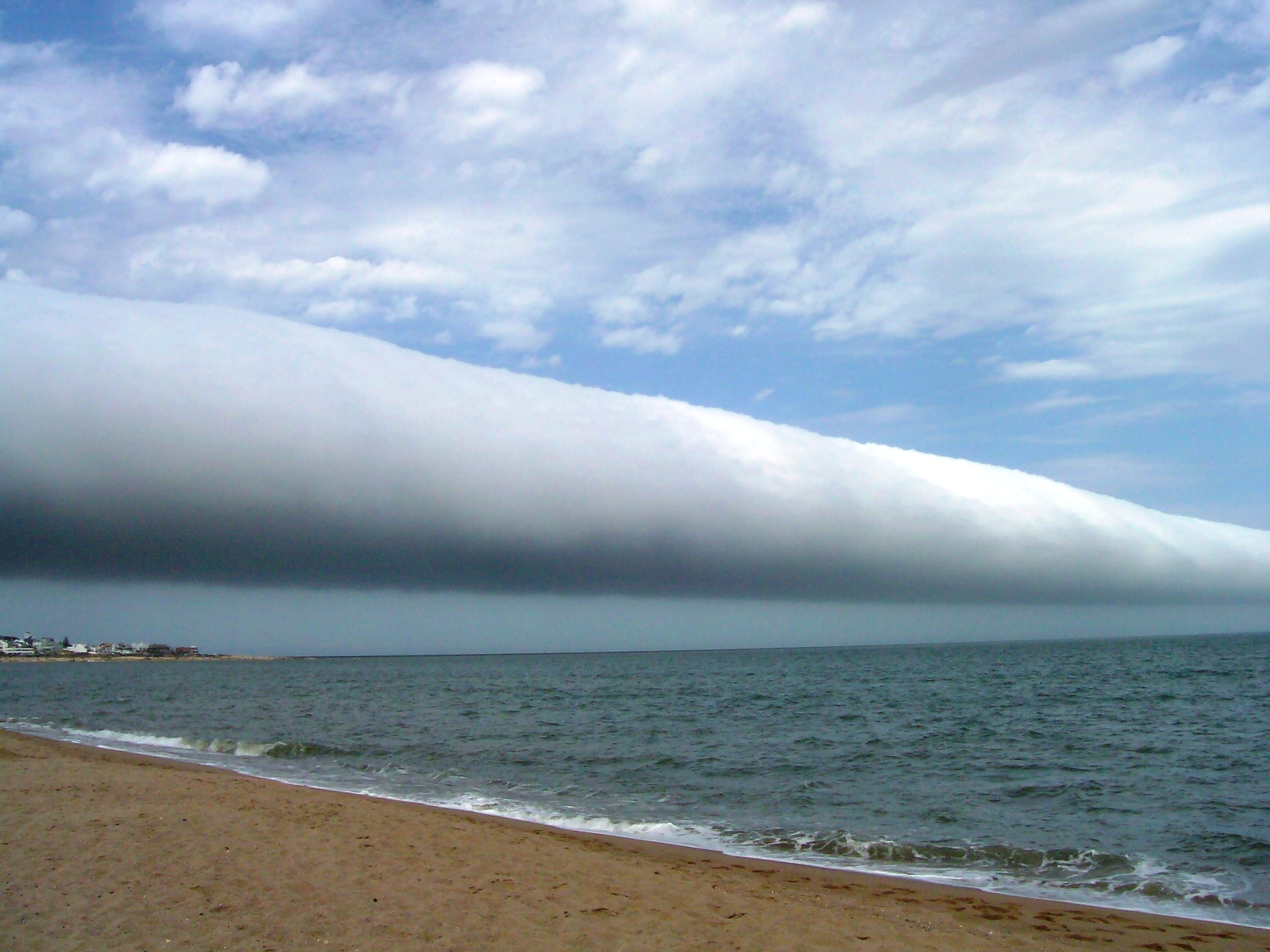 Roll Cloud seen on January 25th 2009, in "Las Olas Beach" located in "Punta del Este" (Country: Uruguay, State: Maldonado)